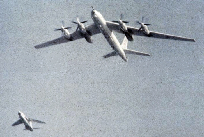 A U.S. Navy Vought F-8H Crusader from Fighter Squadron VF-24 "Red Checkertails" intercepts a Soviet Tupolev Tu-95 (NATO reporting code "Bear"). VF-24 was assigned to Carrier Air Wing 21 (CVW-21) aboard the aircraft carrier USS Hancock (CVA-19) for a deployment to Vietnam from 18 July 1968 to 3 March 1969.